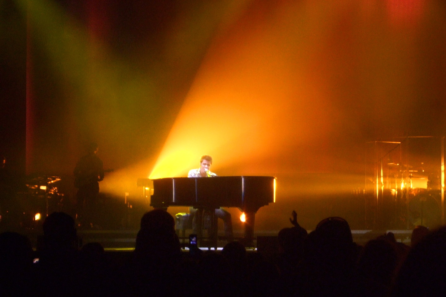 Kris Allen at the American Idol Concert in Tulsa, Oklahoma